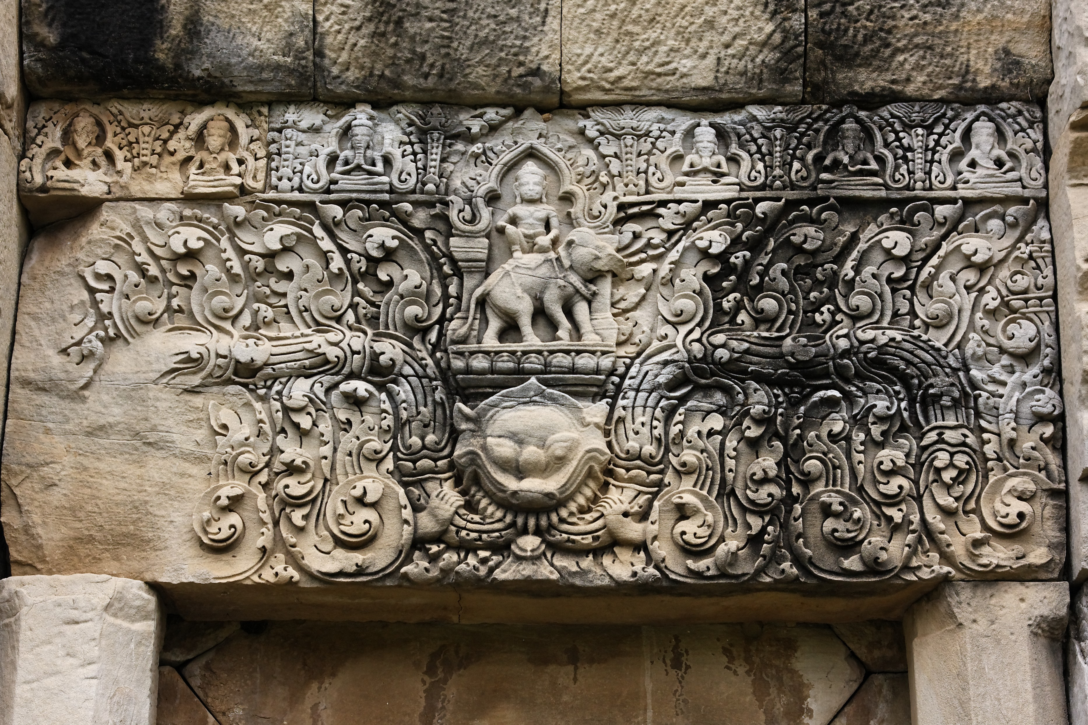 Prasat Ban Phluang, Thailand